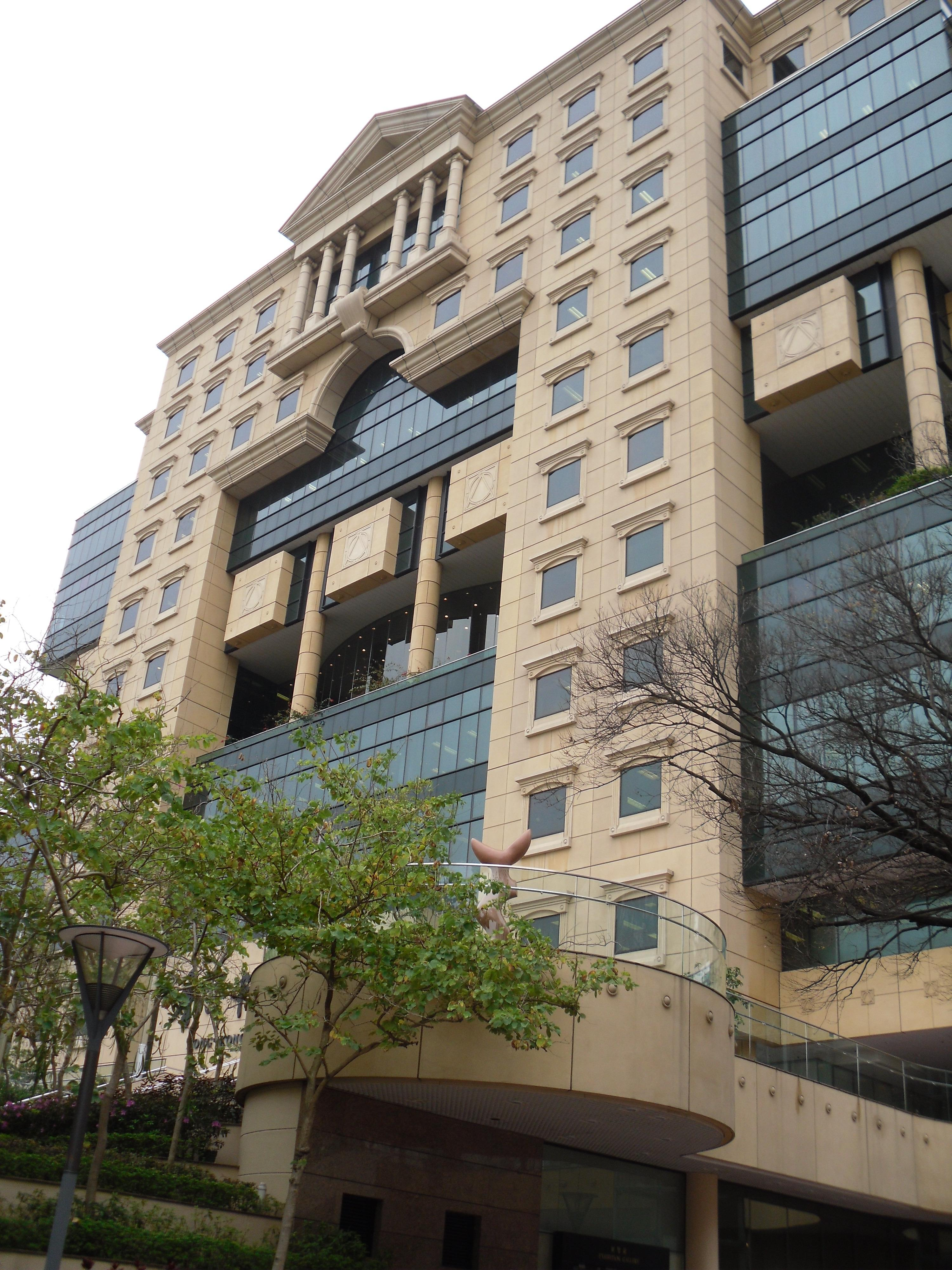 Hong Kong Central Library